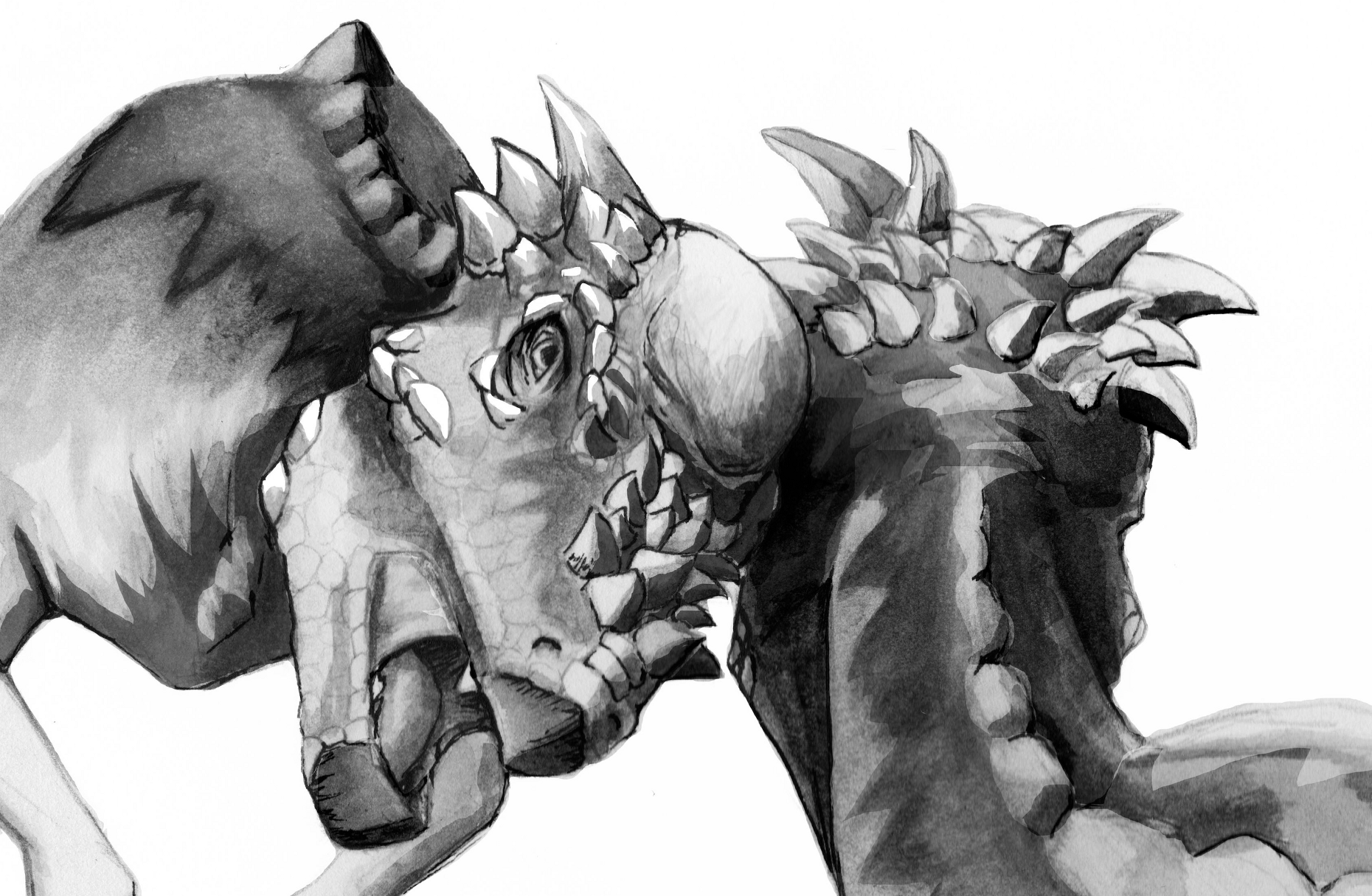 Hypothetical head-to-body interactions among pachycephalosaurids. Giraffa-style necking and parietal clashing in high-domed and large-horned specimens such as subadult Pachycephalosaurus (“Stygimoloch” and “Dracorex”).